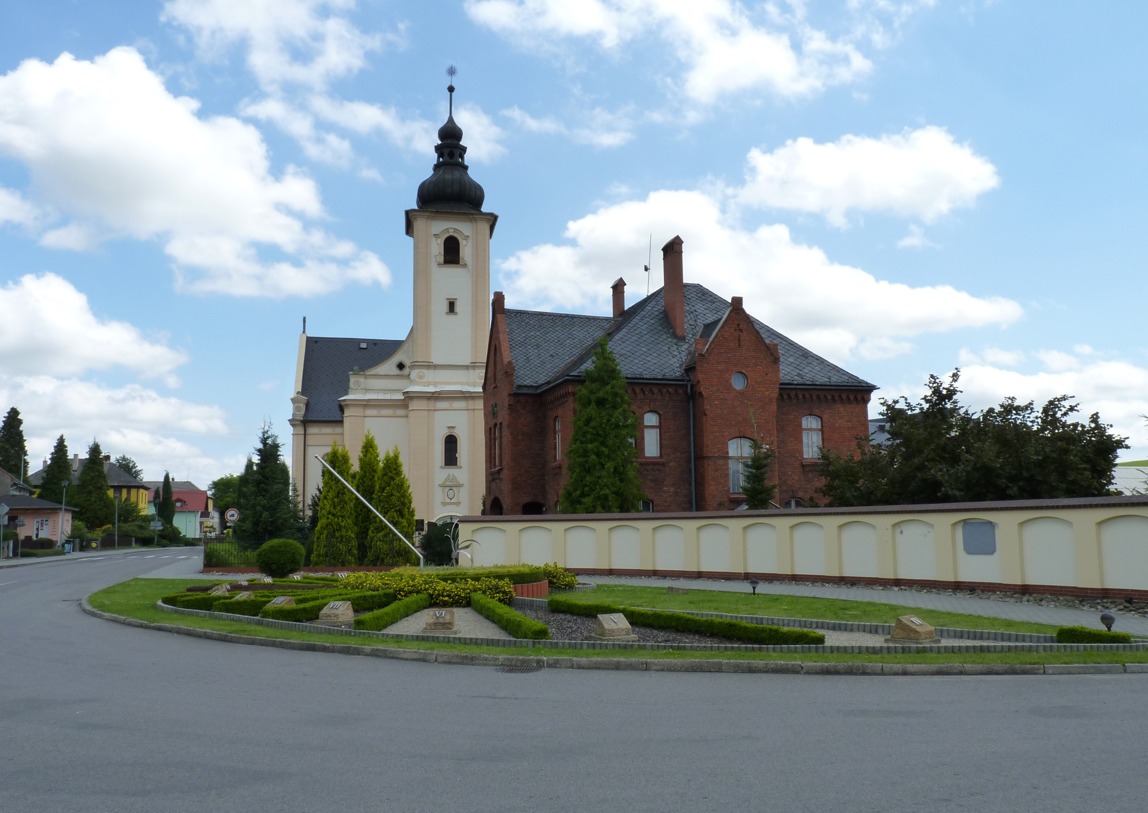 Sundial at street corner near St. Lawrence church in Píšť, Opava District, Moravian-Silesian Region, Czech Republic